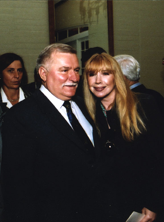 ALEX NAUMIK & LECH WALESA AT THE USC UNIVERSITY, LOS ANGELES 2002